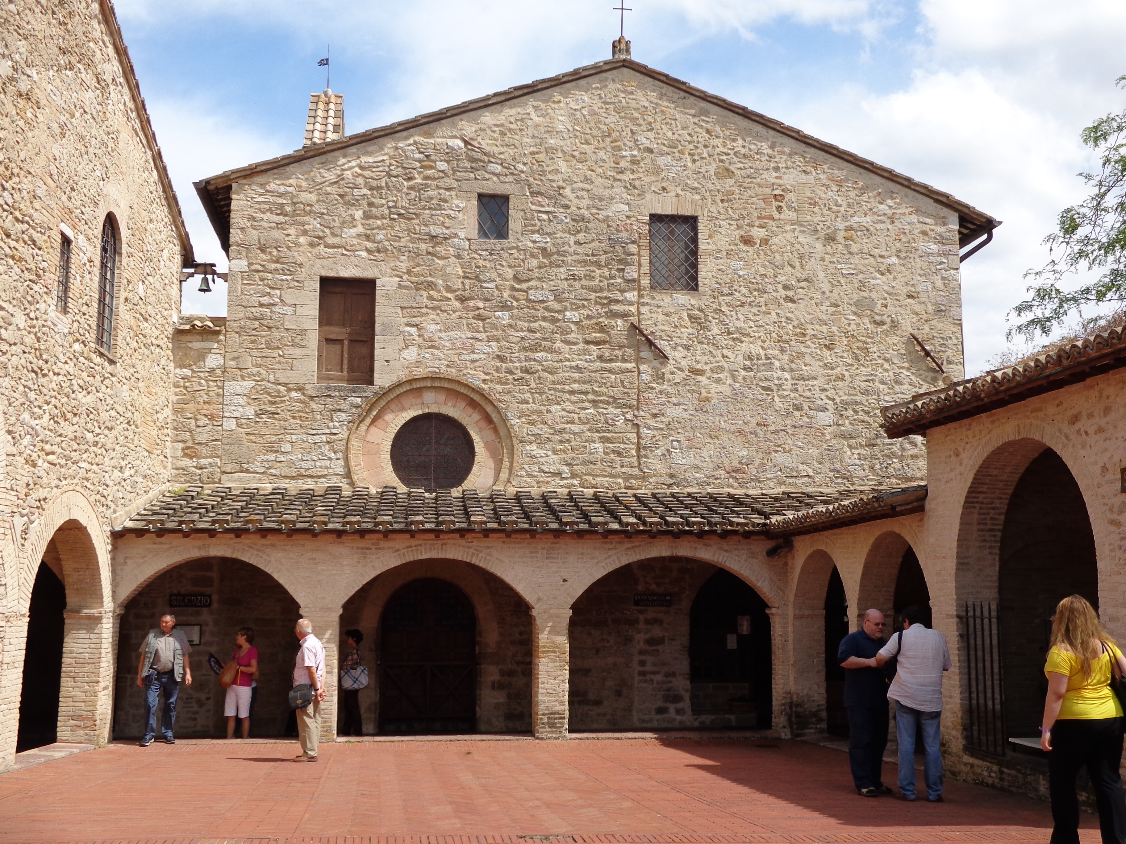 San Damiano (Assisi)